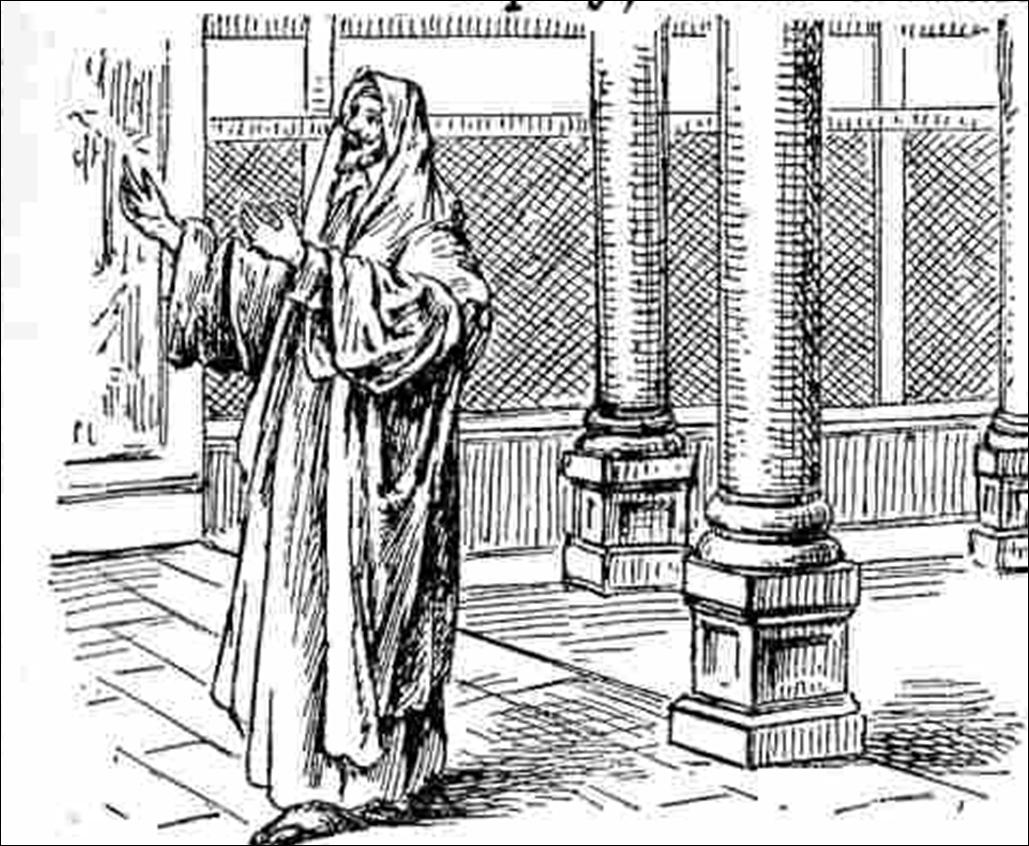 croped version of M. Bihn & J. Bealings